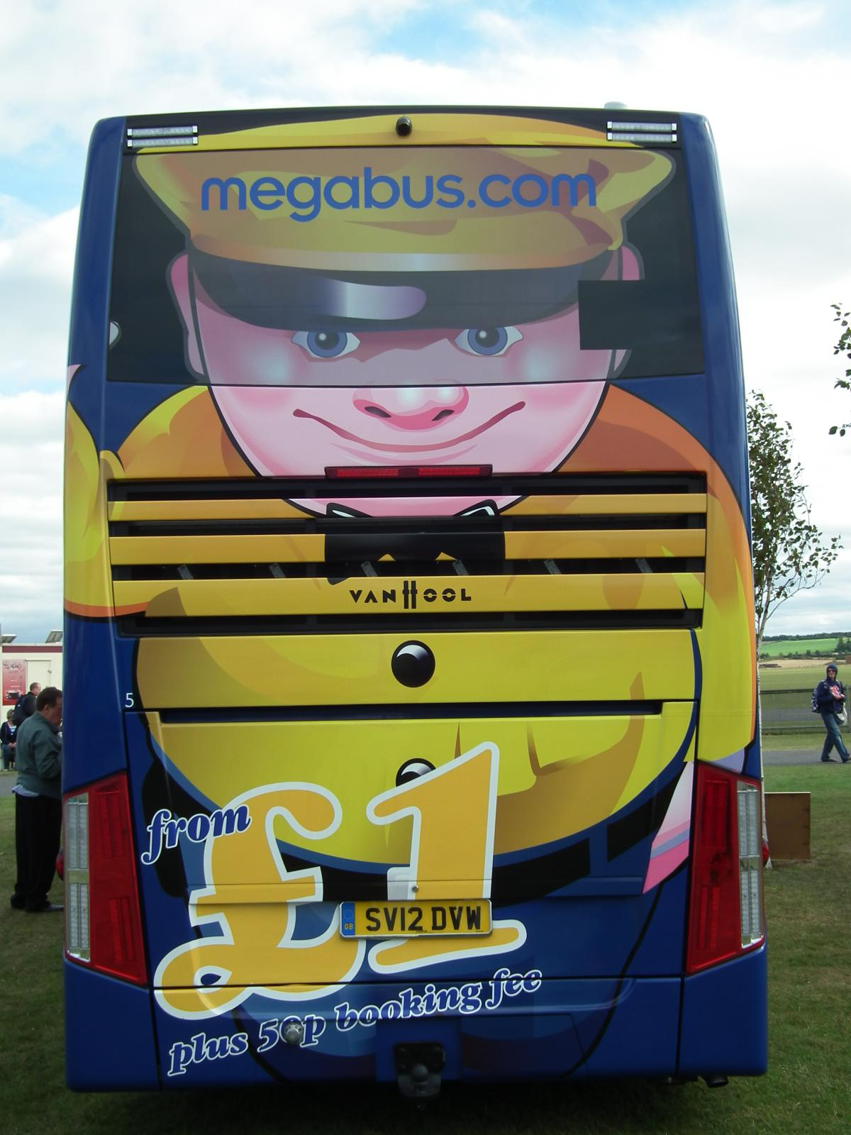 The rear of Megabus 50245 (SV12 DVW), a Van Hool Astromega, seen at Showbus 2012.